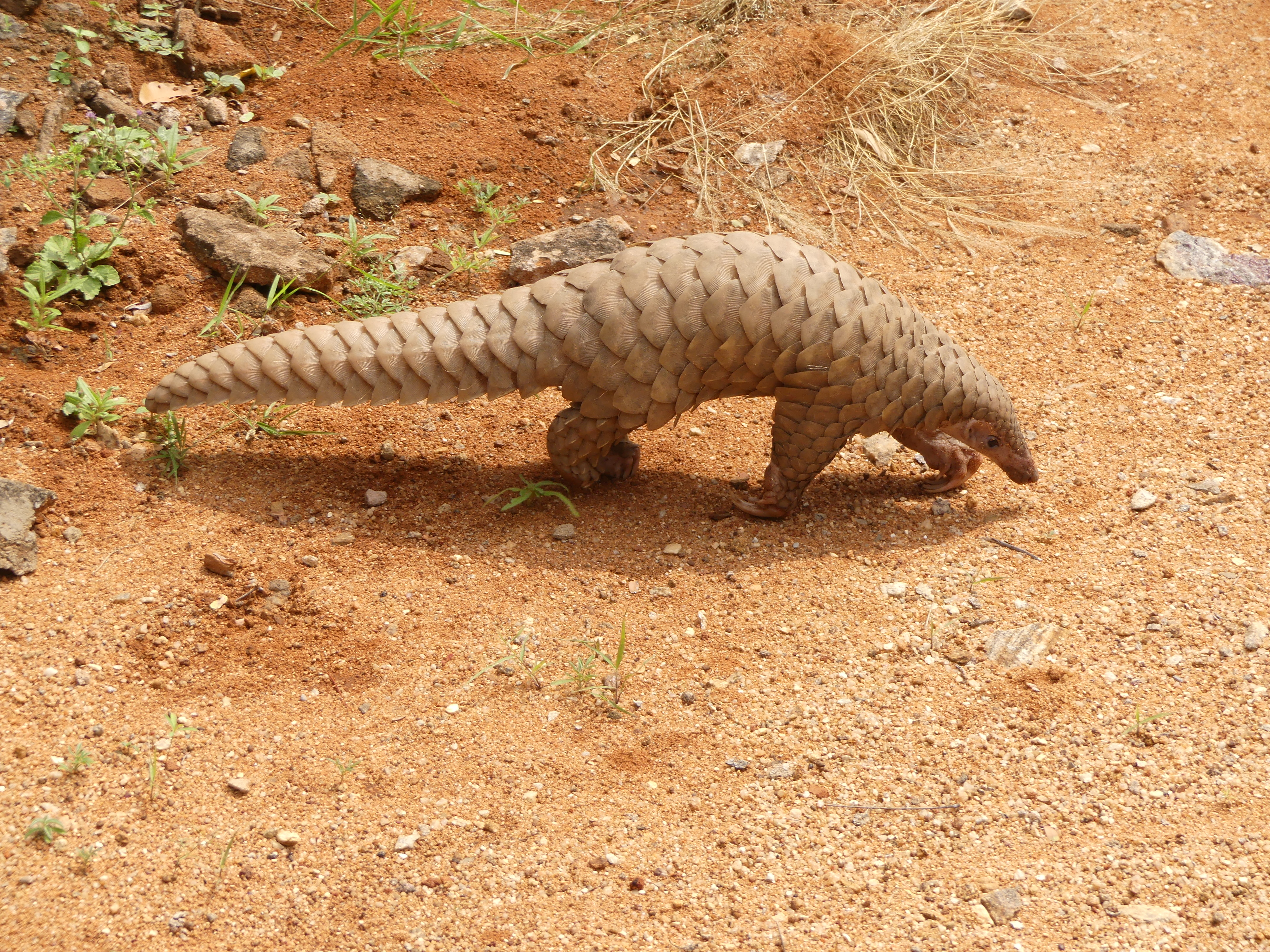 Pangolin brought by the villagers to the Range office, KMTR